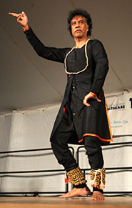 Chitresh Das performing at the 2008 American Folk Festival in Bangor, Maine.